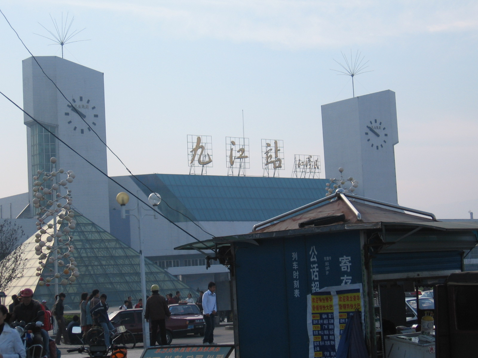 Jiu Jiang Railway Station in China